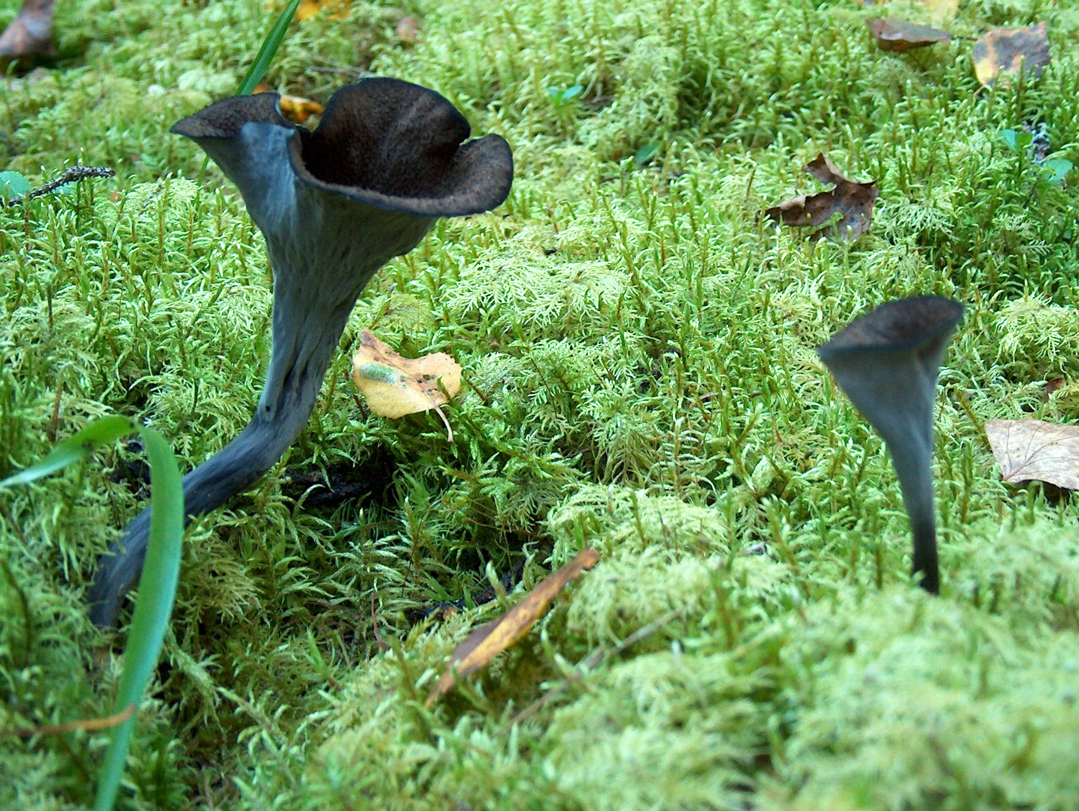 Craterellus cornucopioides, Black Chanterelle - Kerava, Finland